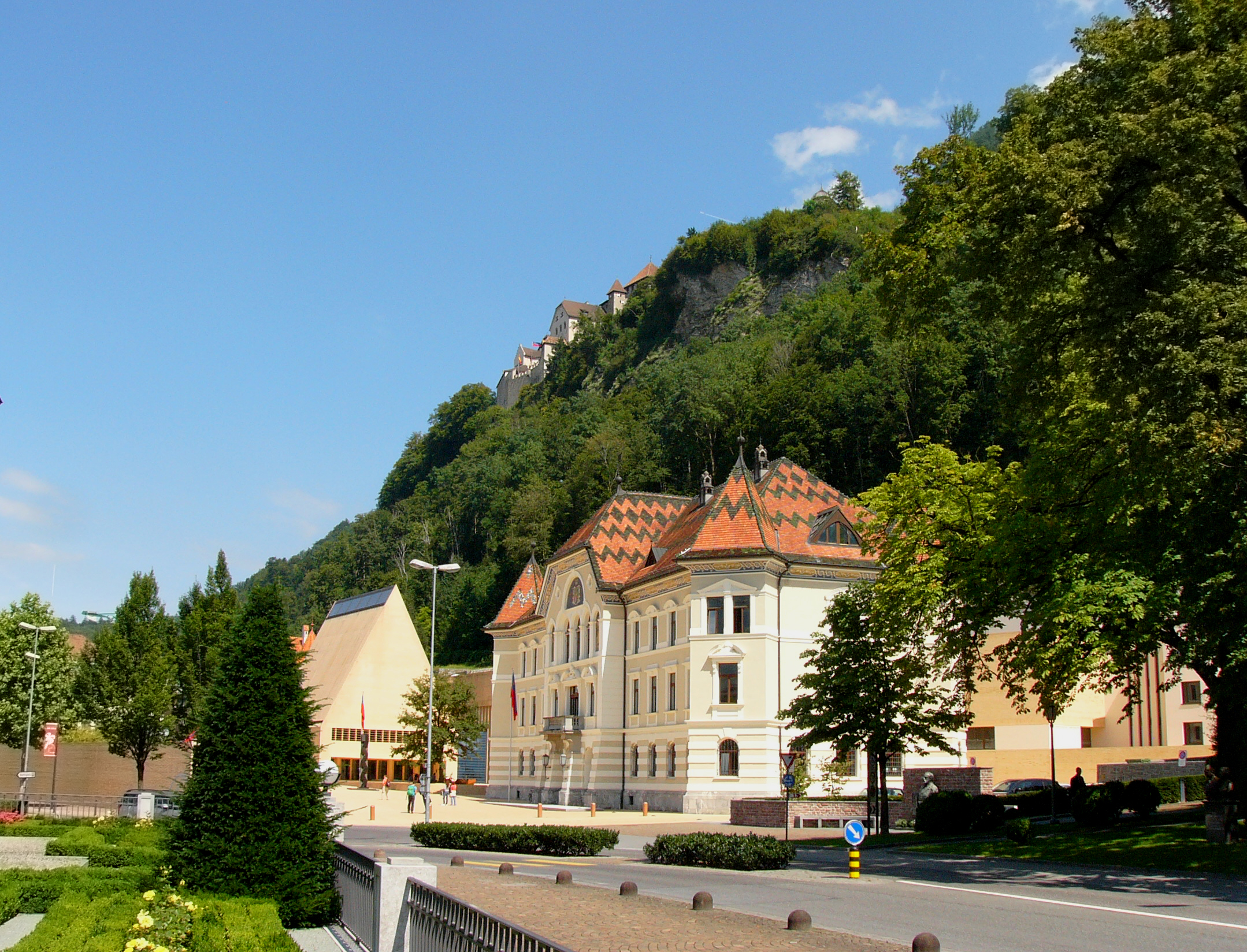 Vaduz in Liechtenstein - View to government and parliament of Liechtenstein